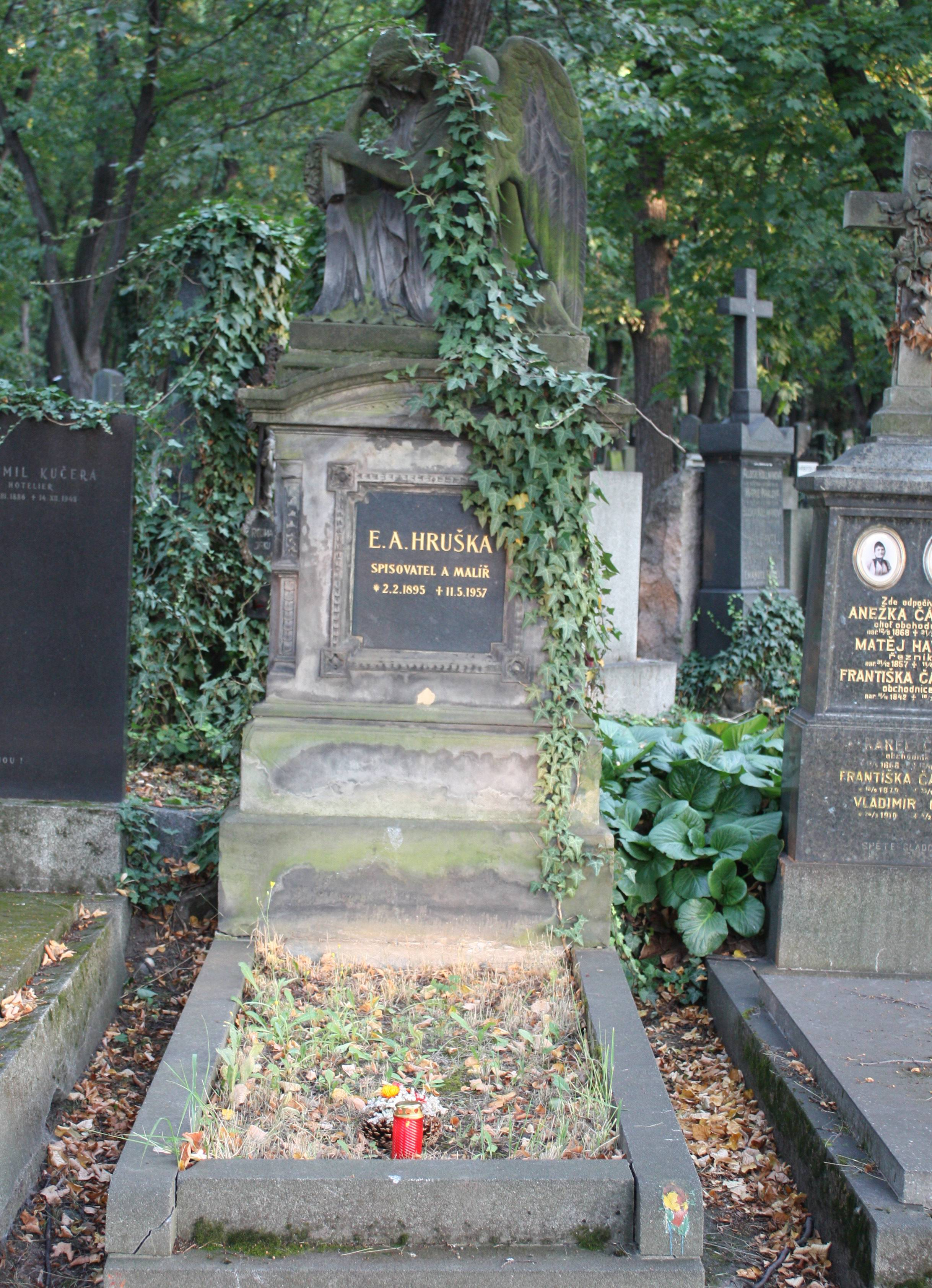 Emmerich Alois Hruška (Czech writer and painter) tomb on Prague Olšany Cemetery.